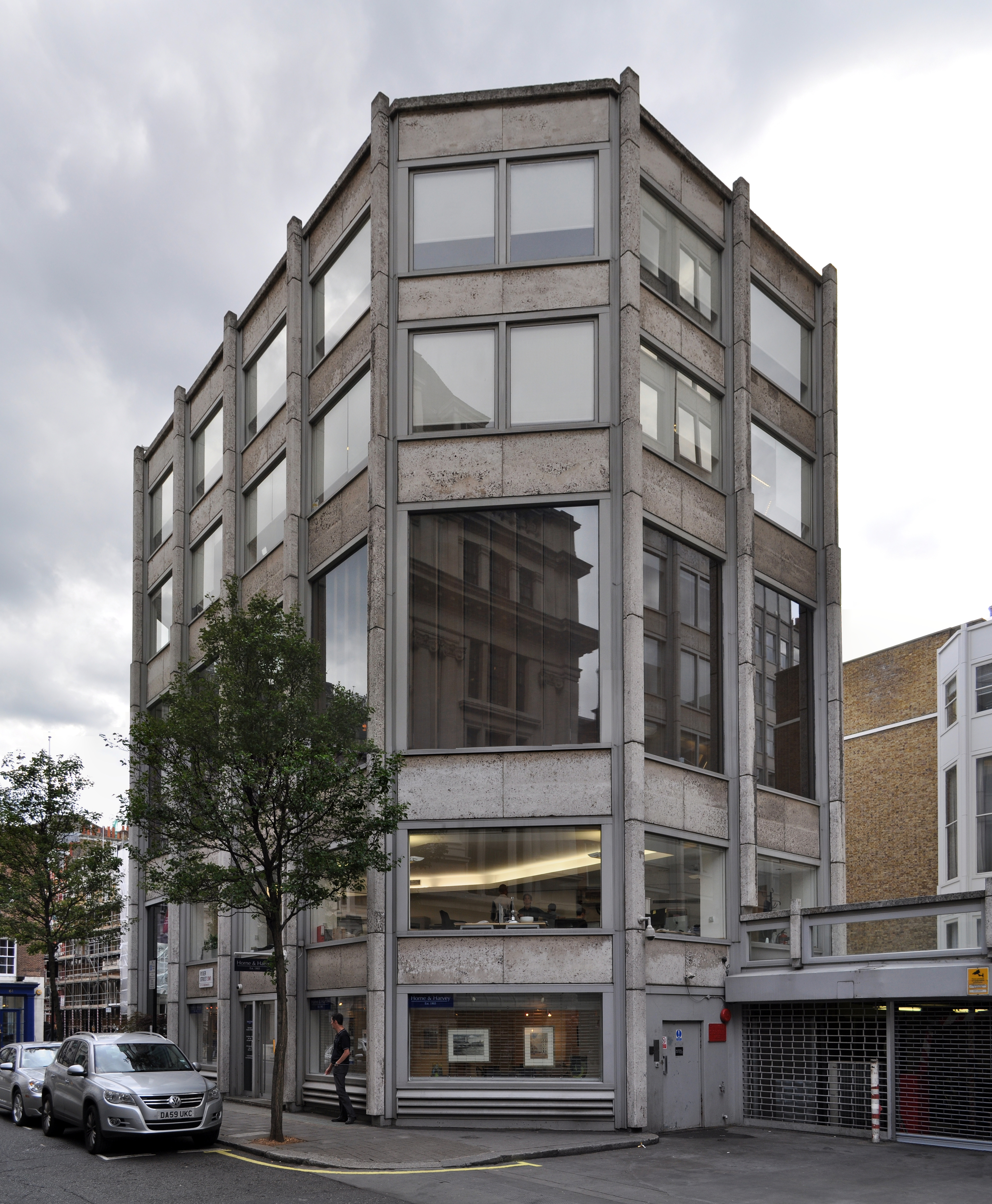 the economist building, london 1959-1964. Architects: peter and alison smithson (1923-2003 & 1928-1993).